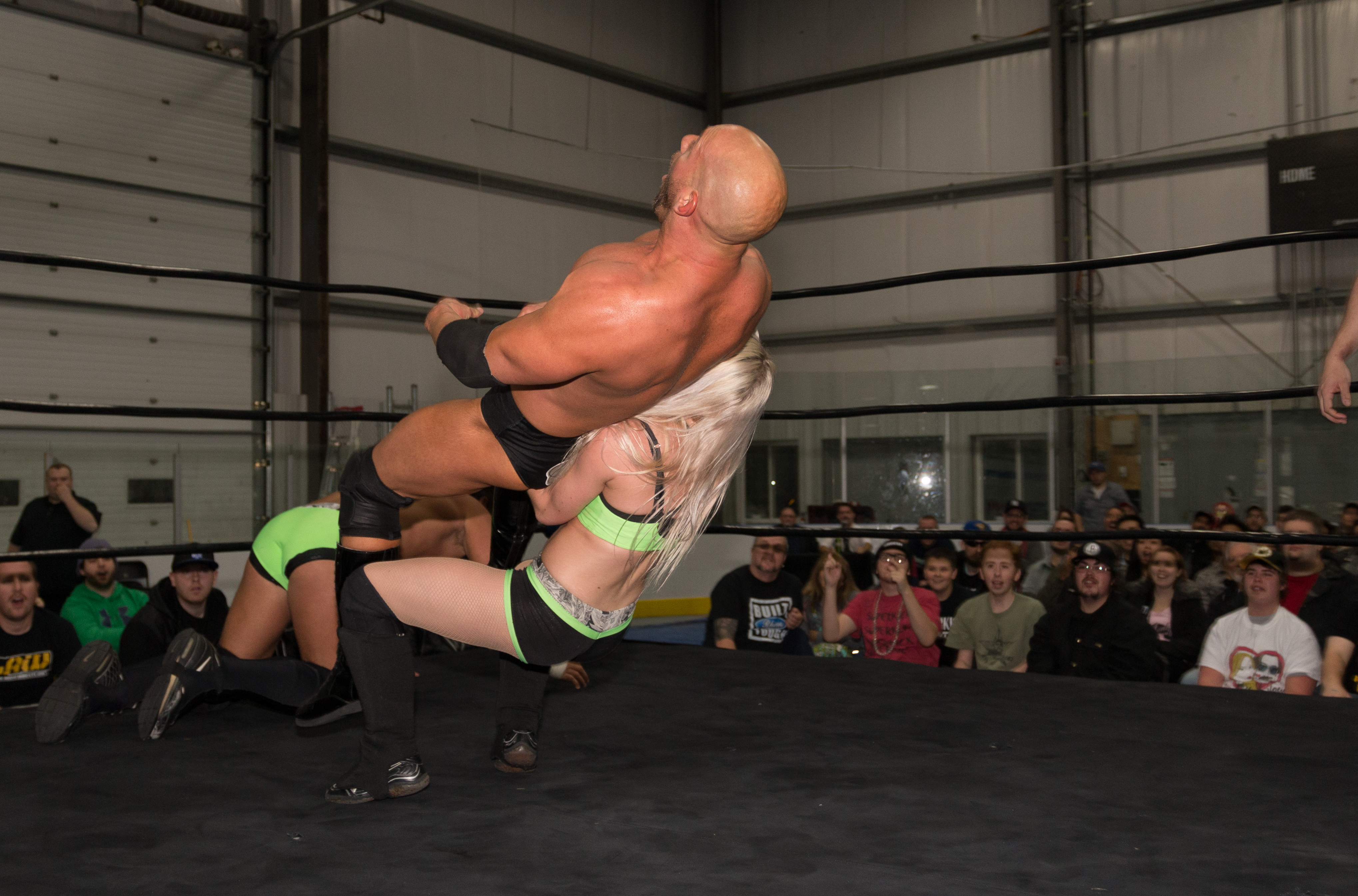 Independent wrestler Candice LeRae executing her Balls-Plex (a crotch-lift release German suplex) on Pepper Parks at Smash Wrestling's Challenge Accepted show